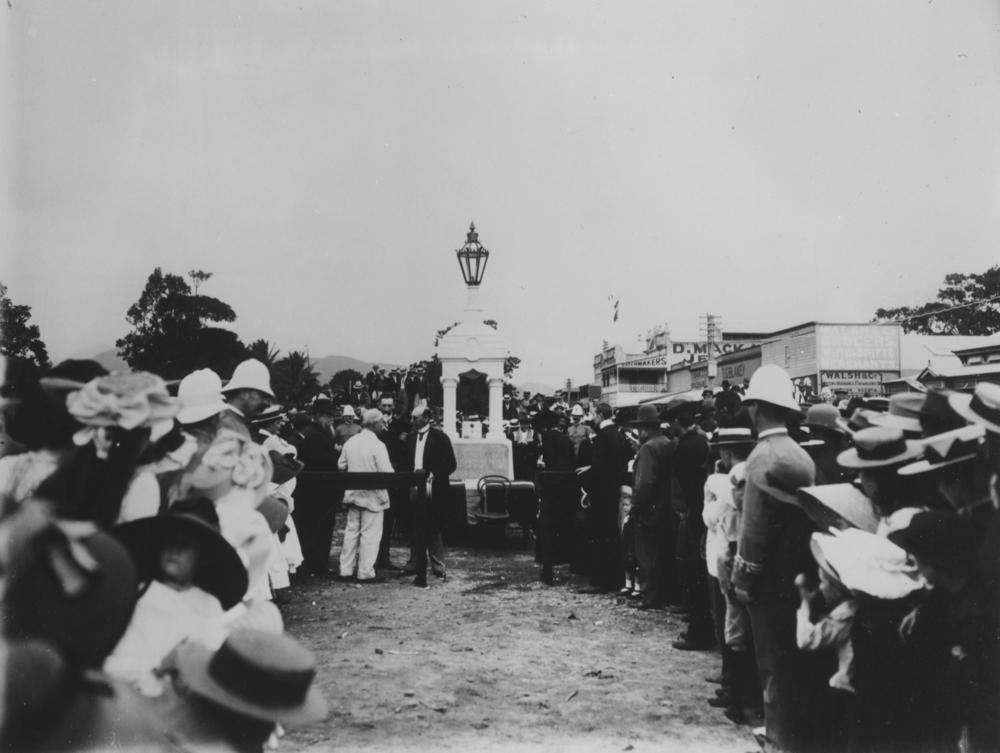 Unveiling the Dr. E. Koch Memorial, Cairns, 1903 Sir Herbert Chermside unveiling the Dr. E. Koch Memorial. (Description supplied with photograph.).